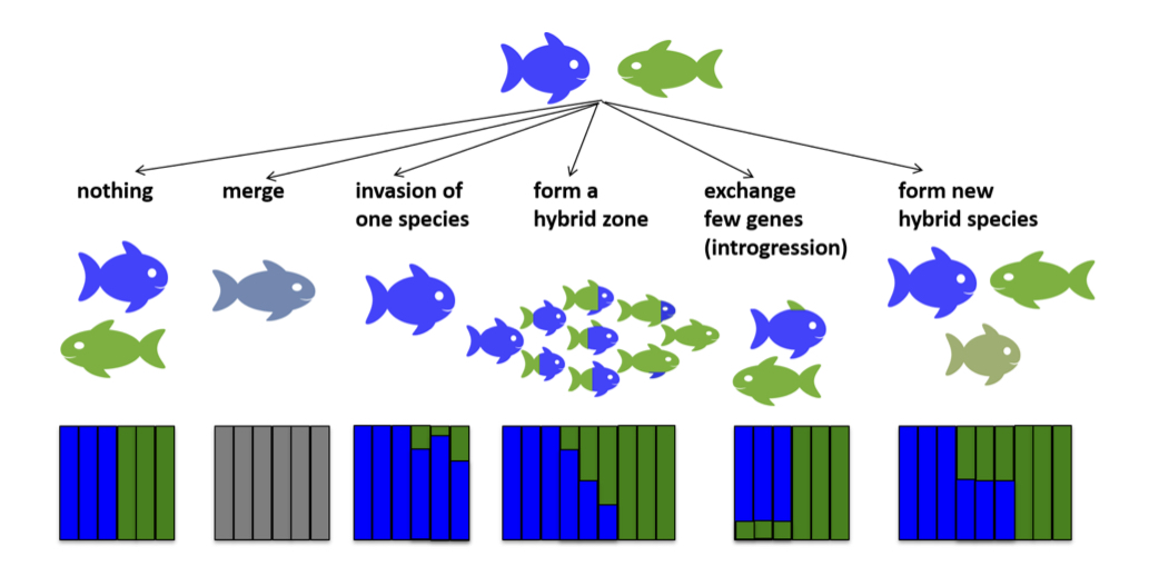 This is a schematic illustration of the outcomes of interspecific hybridization. It is a figure for a Plos wiki review on Evolutionary hybrid genomes.